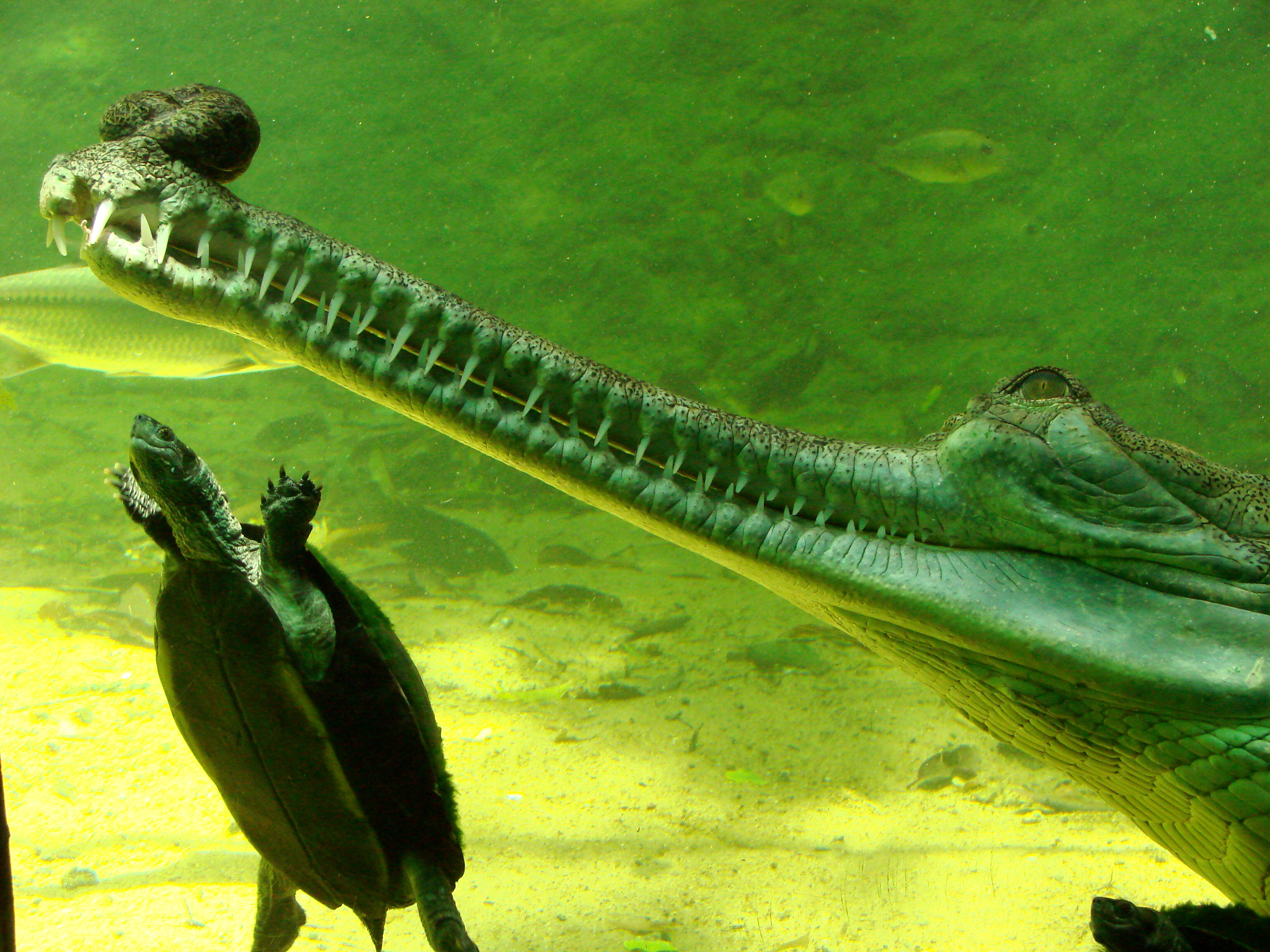 Gharial and turtle at the Crocodile Bank, outside Mamallapuram, India. July 2008.